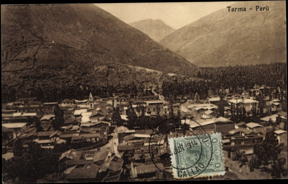 Postcard of Tarma sent in 1914 from Callao, Peru.